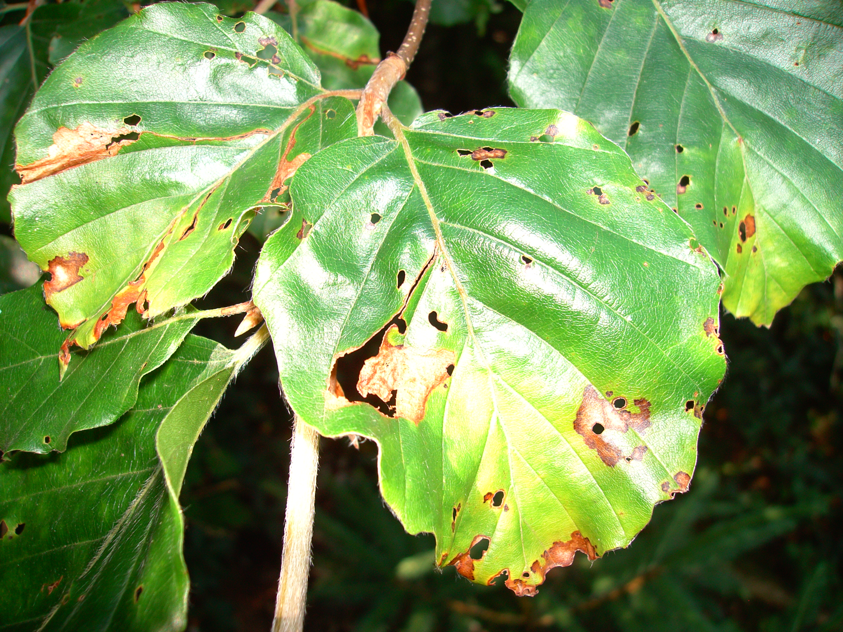 Damages of Orchestes fagi on Fagus sylvatica